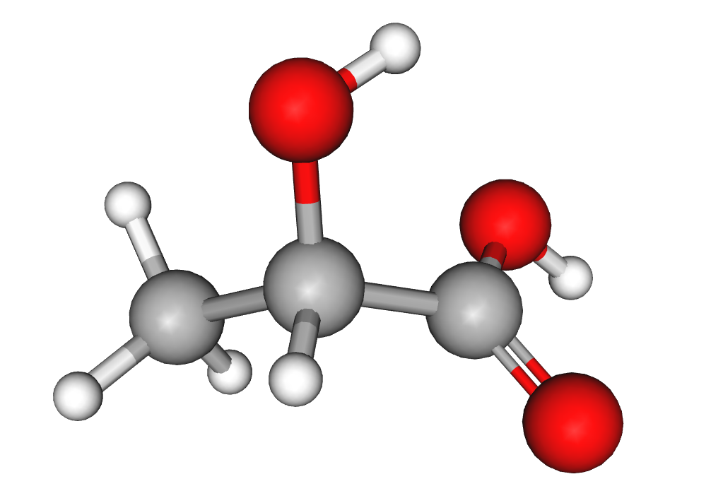 Hydroxypropanoic acid